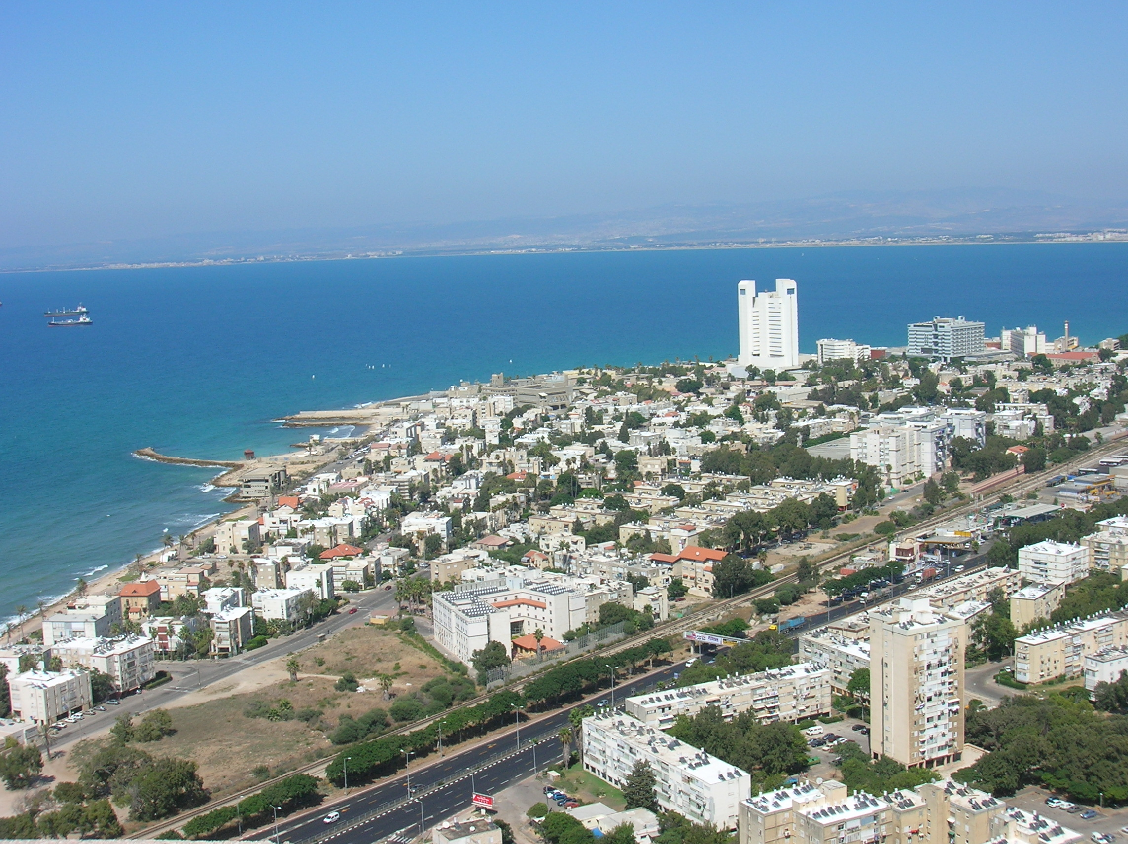 Bat-Galim, Haifa. Visible are the Bat-Galim Train Station, The Technion's Faculty of Medicine building and Rambam Medical Center.